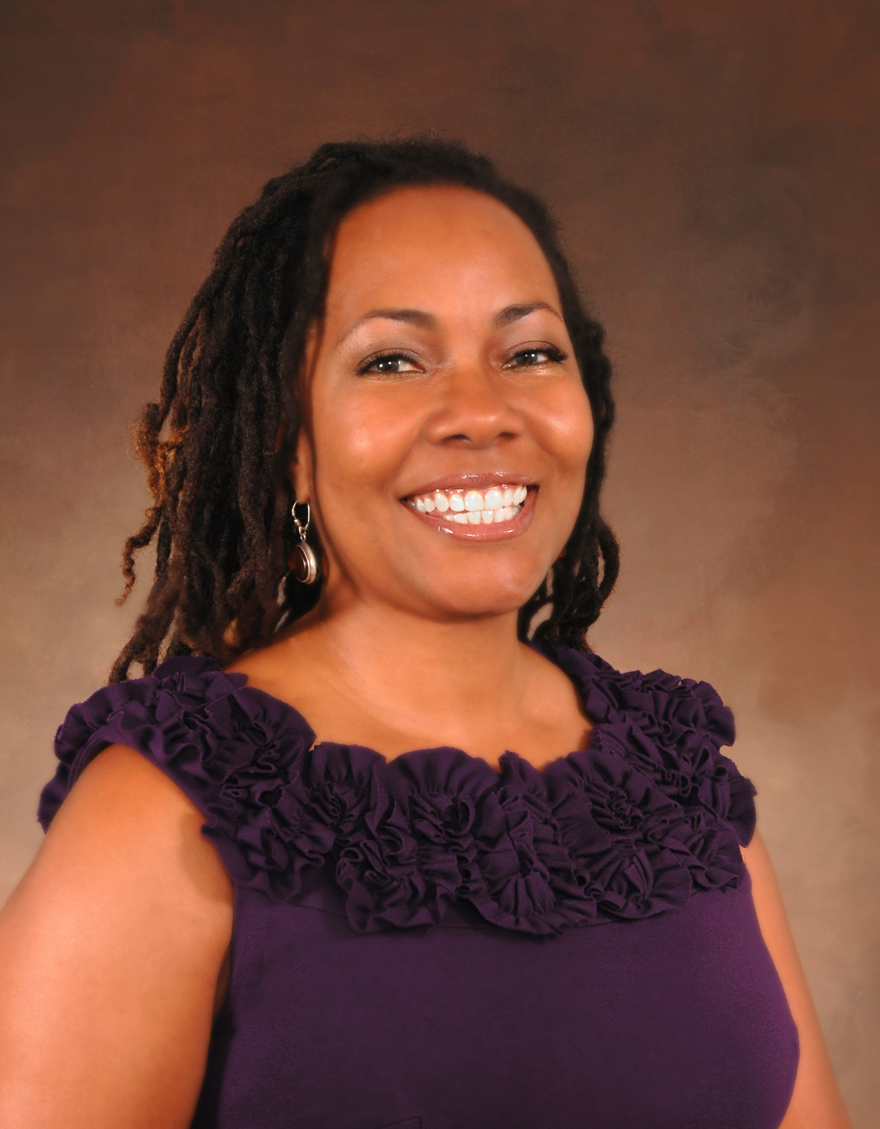 Picture of DeBorah Thigpen